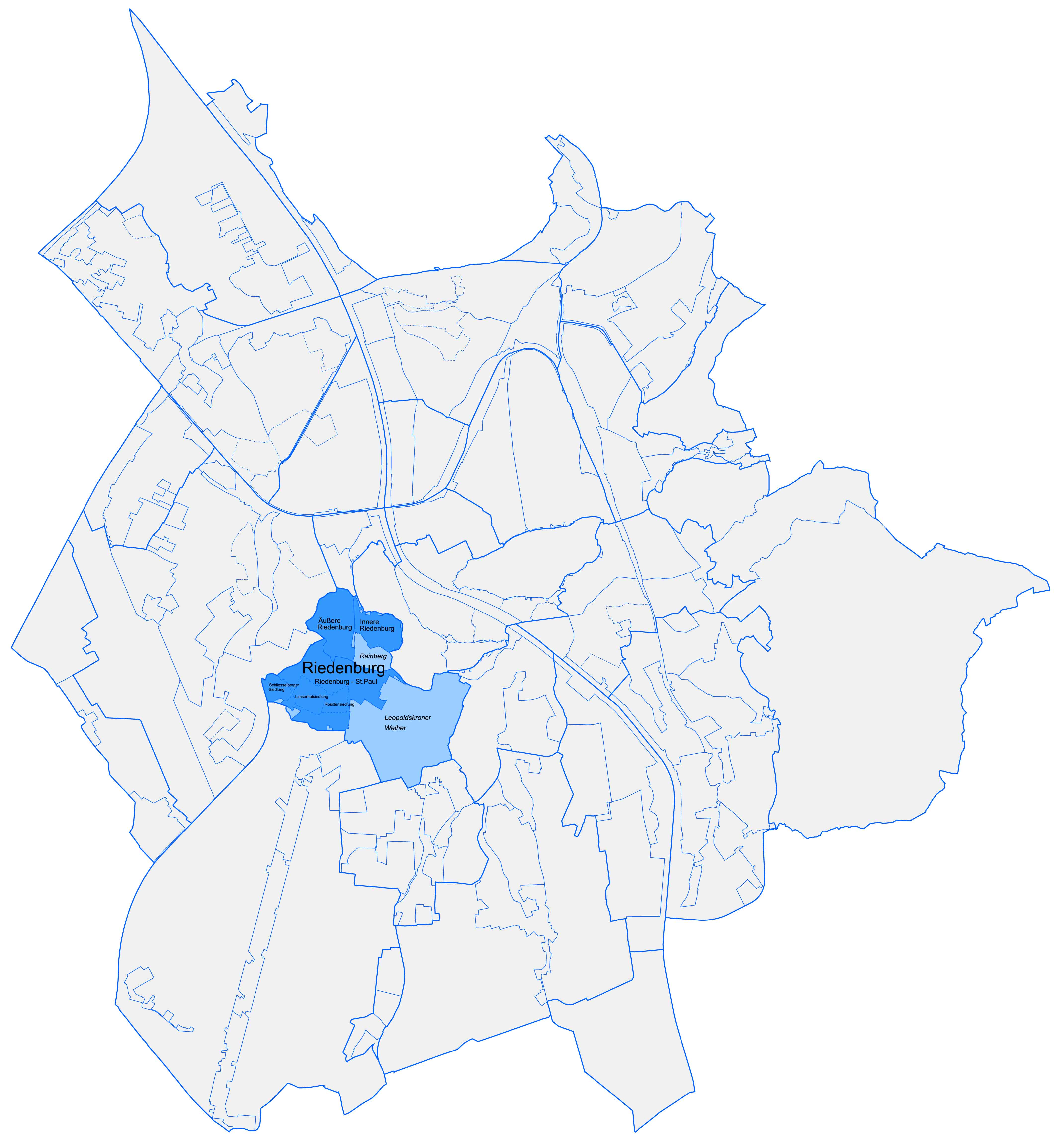 location of Riedenburg, a quarter of the Austrian city of Salzburg